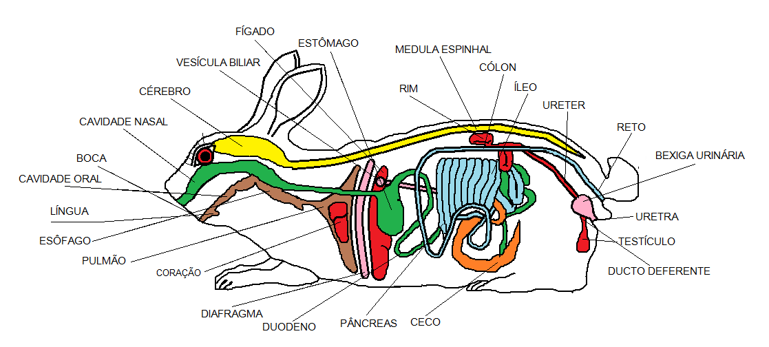 Rabbit internal anatomy (Oryctolagus cuniculus).